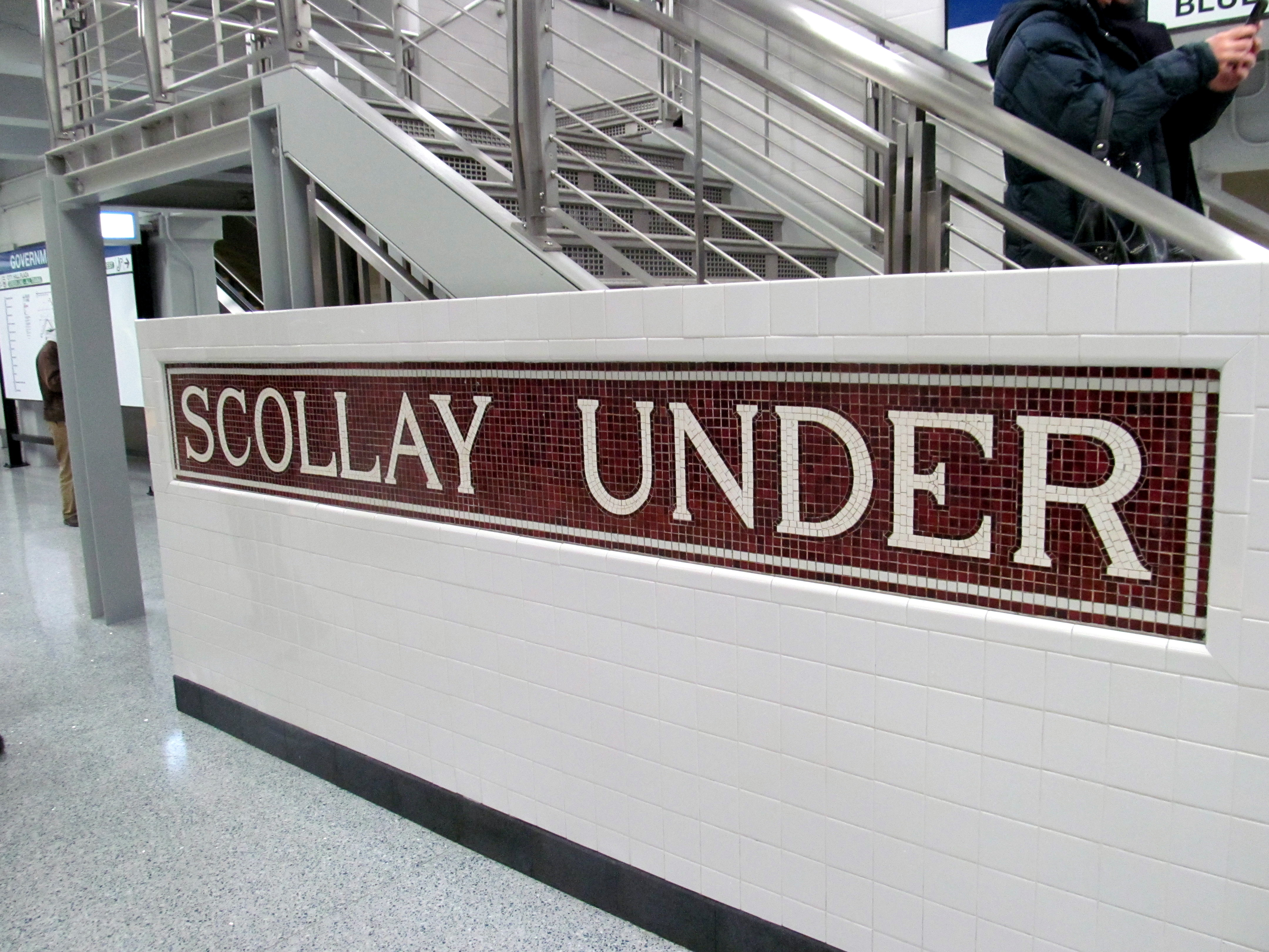 Restored SCOLLAY UNDER tile mosaic at Government Center station on reopening day in March 2016